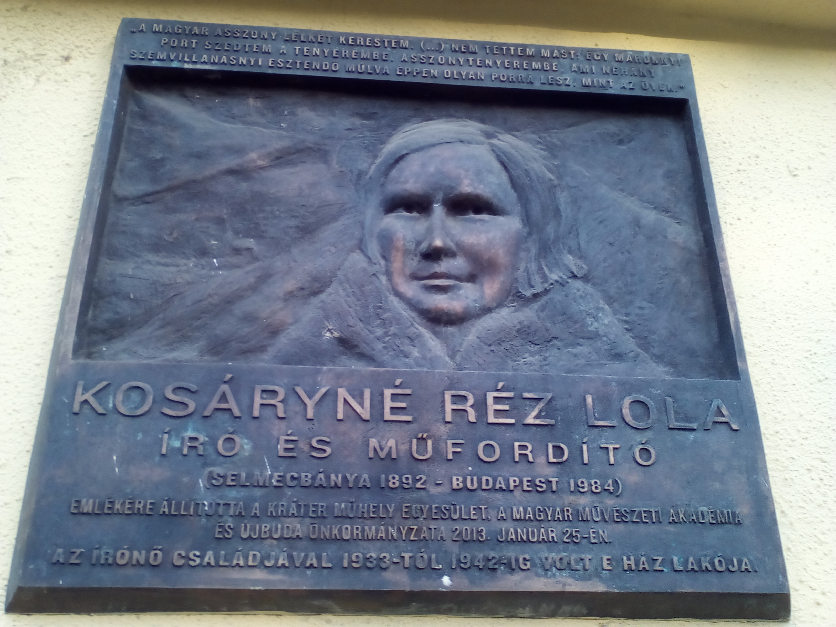 Lola Réz Kosáryné commemorative plaque in Budapest District XI, Fadrusz Street No 2. By Villő Turcsány.